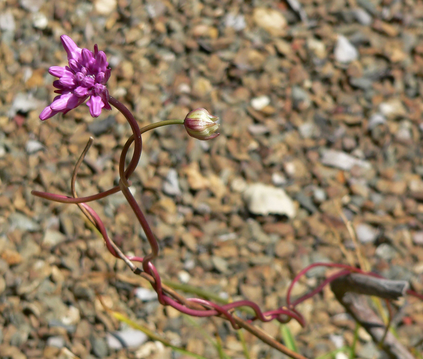 Dichelostemma volubile at the University of California Botanical Garden, Berkeley, California